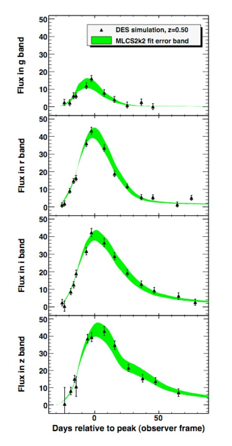 Simulated light curves from DES (Dark Energy Survey)